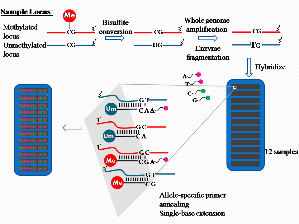 Figure 1. Work flow of Illumina Methylation Assay using the Infinium II platform.